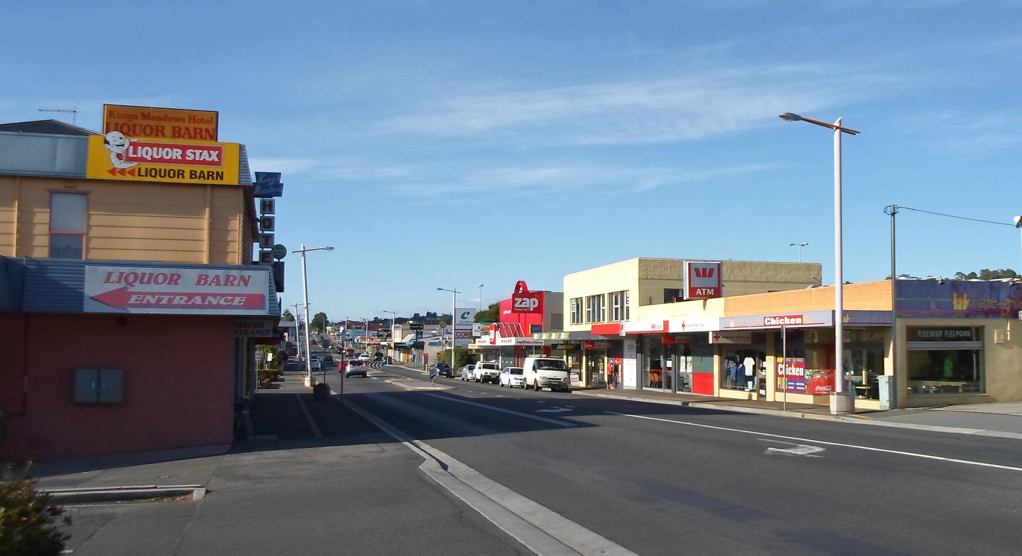 Looking south down Hobart Road, Kings Meadows, Tasmania